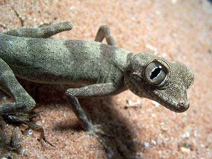 The female Persian spider gecko (Agamura persica) in a captive environment.